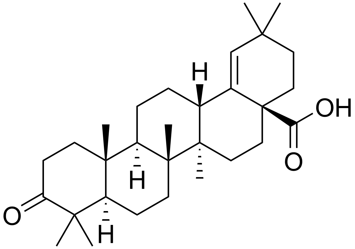 chemical structure of moronic acid